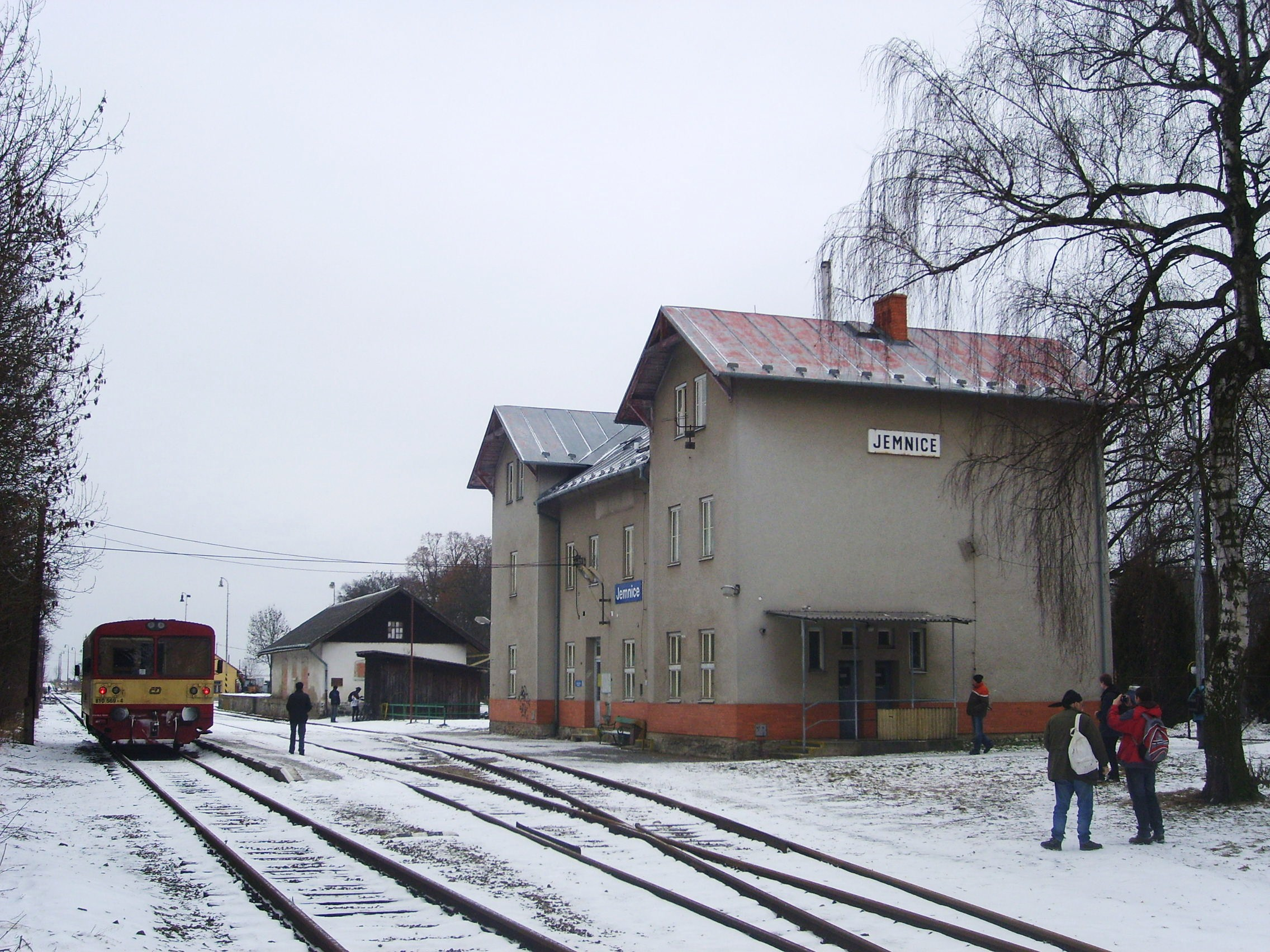 Diesel railcar 810 569-4 at a station in Jemnice, Czech Republic, at the end of a secondary line from Moravské Budějovice.